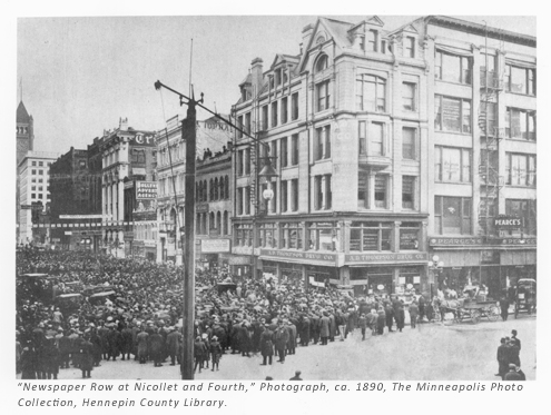 An image of the Newspaper Row in Minneapolis